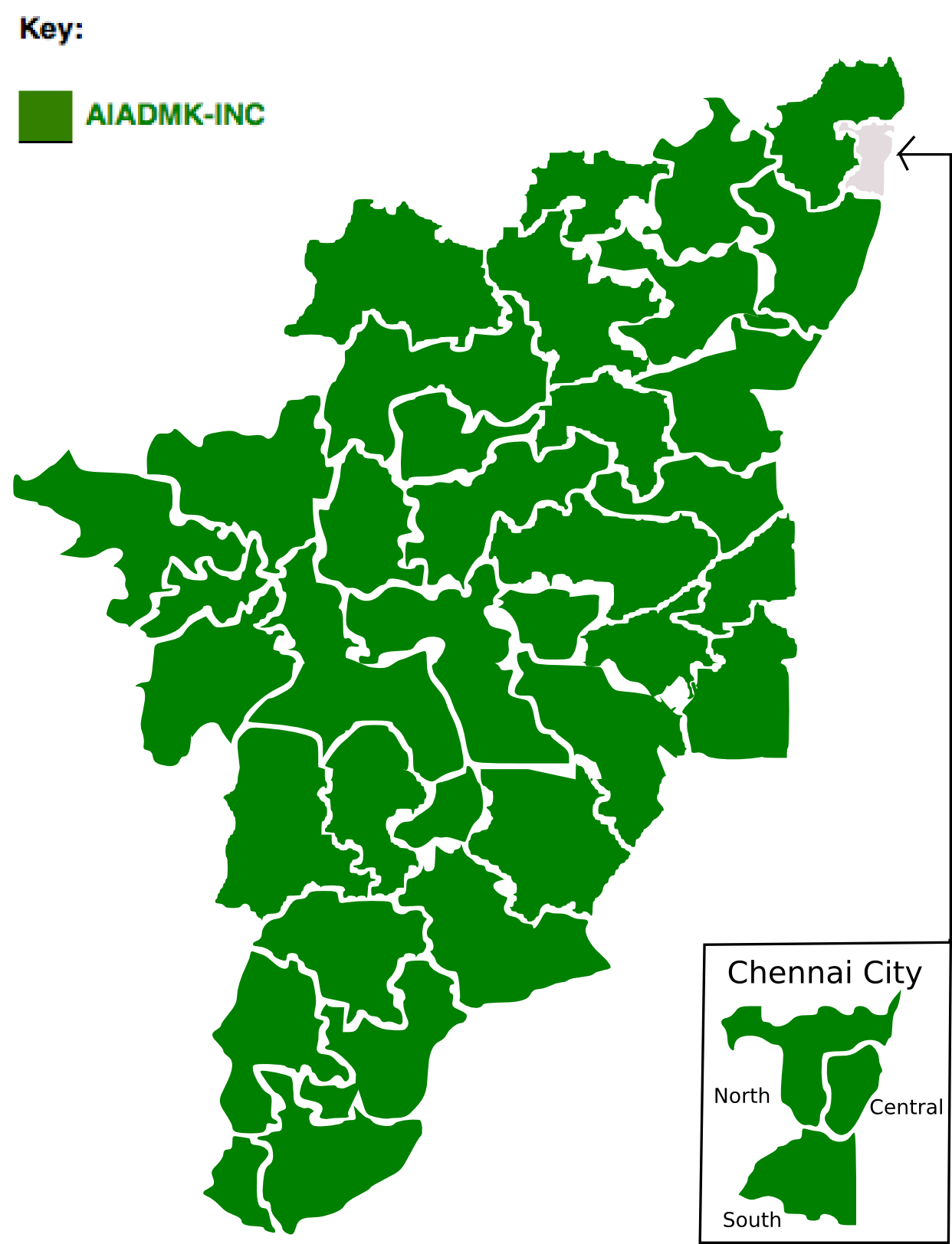 1991 Lok Sabha Election map for Tamil Nadu. Map is based on ECI drawn map. Results are based on ECI website.